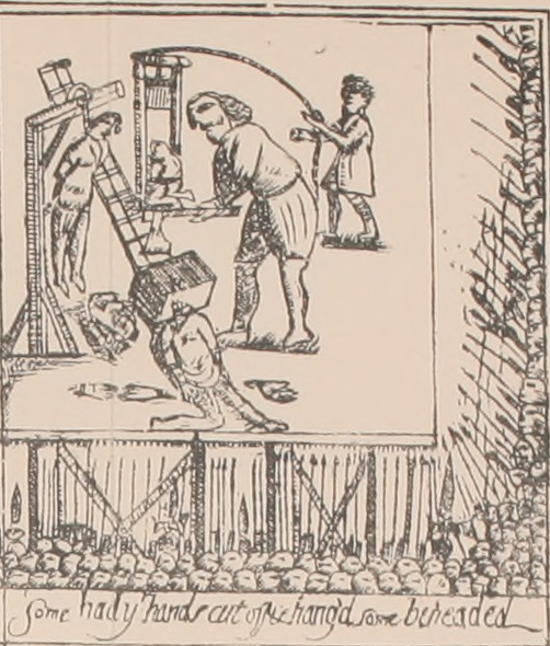 Some hady hands cut off hang'd some beheaded